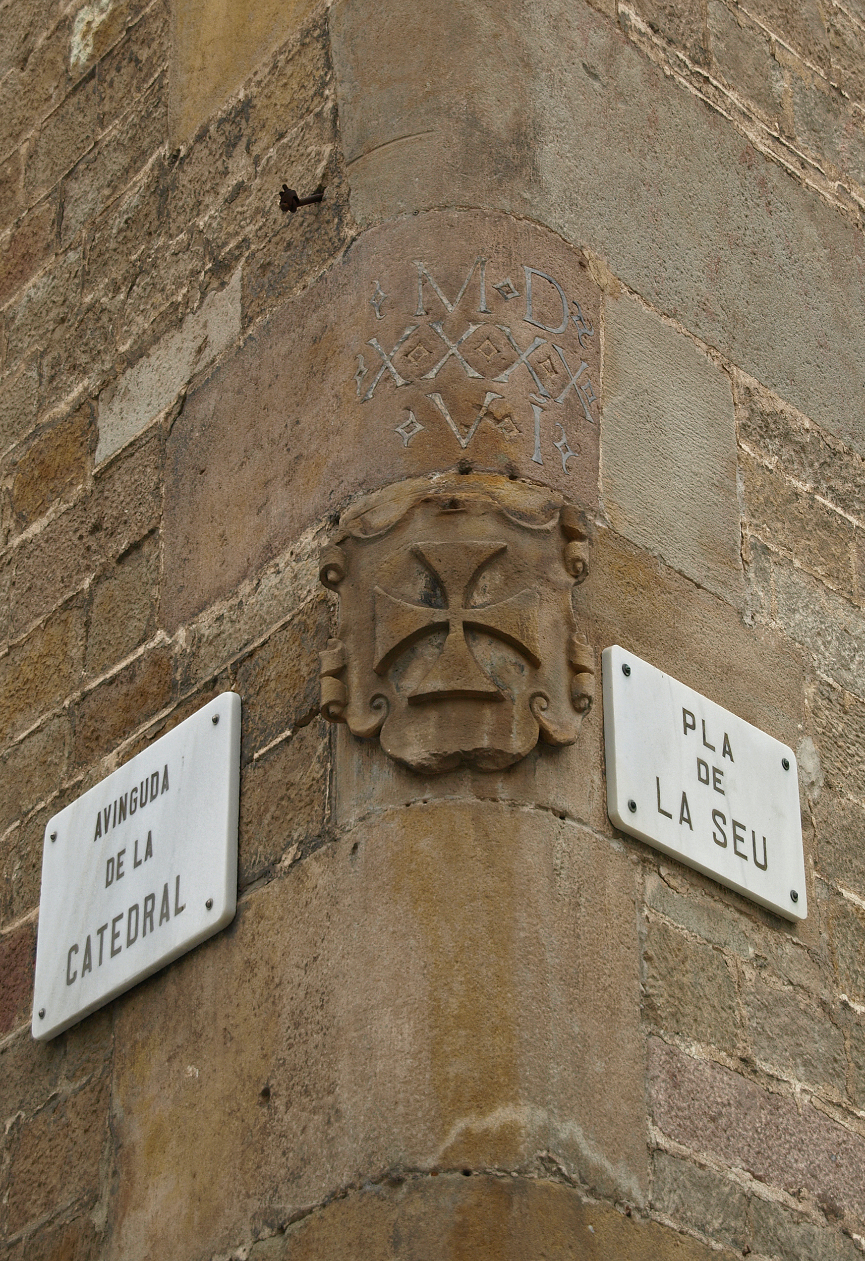 Diocesan Museum of Barcelona (Spain)